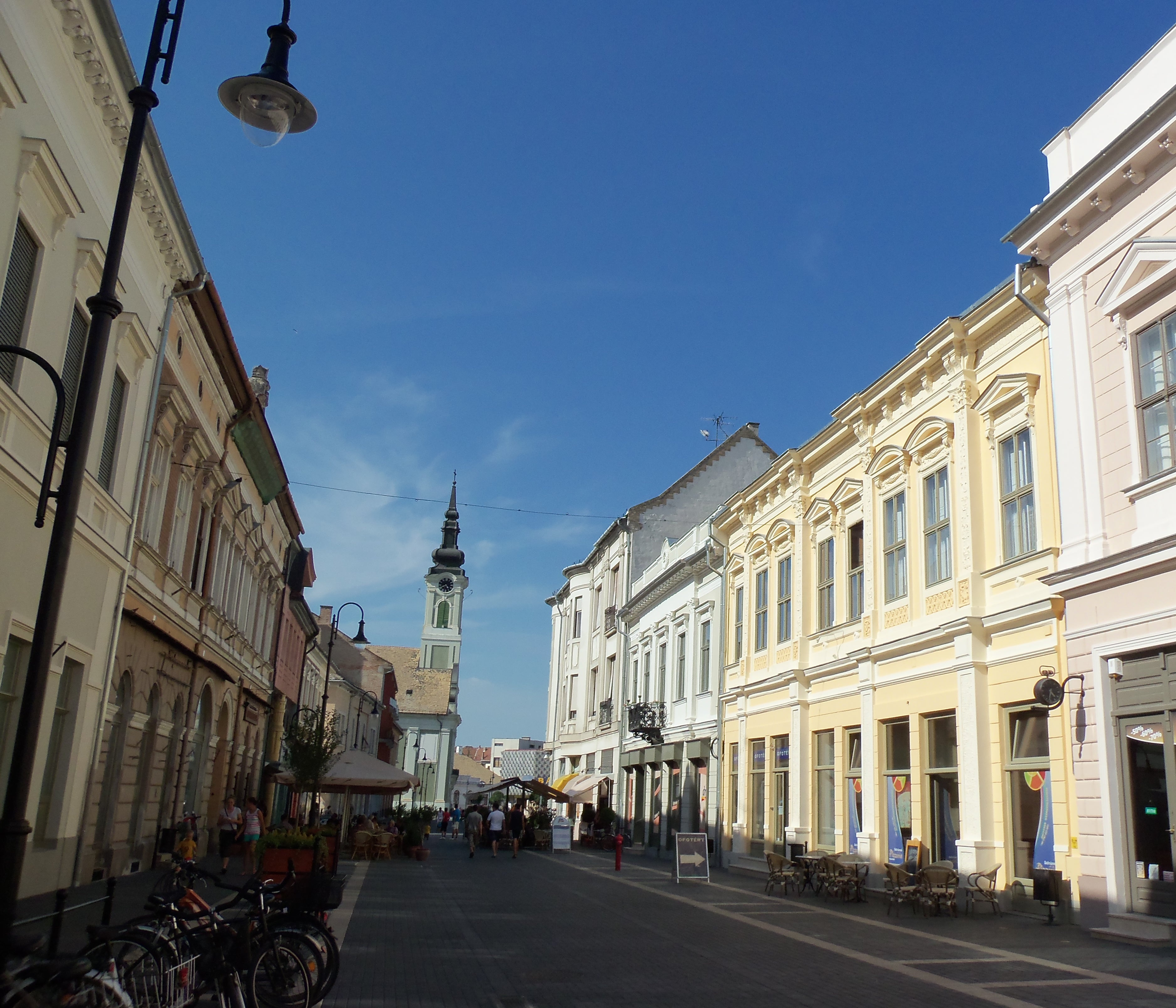 Eötvös József Street in Baja, Hungary